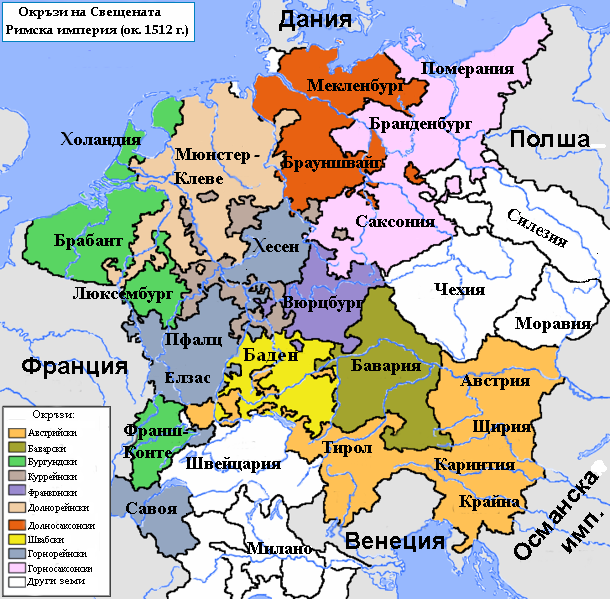 Map of the Imperial Circles (1512)-bg.png